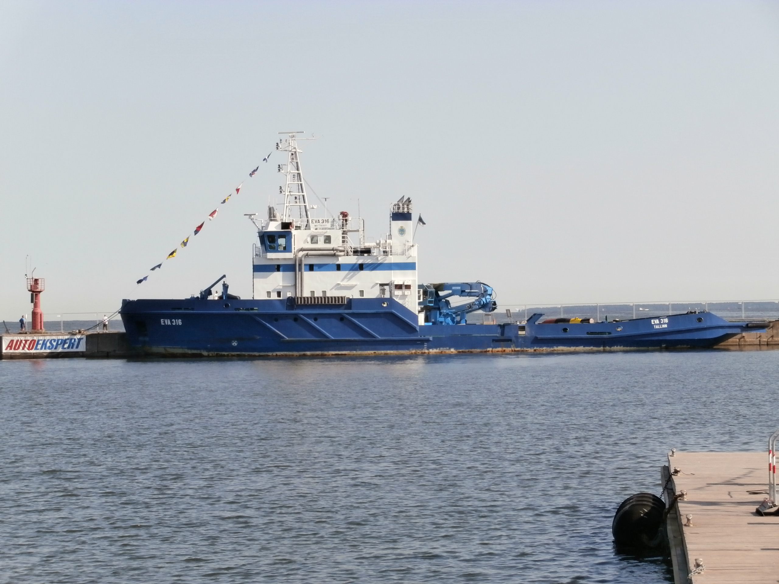 EVA 316 port side, Tallinn 12 July 2013 (beacon Lennusadam E Mole Fl(1)R 3s7m2M (B: 59°27′18.58″N; L: 24°44′12.93″E)